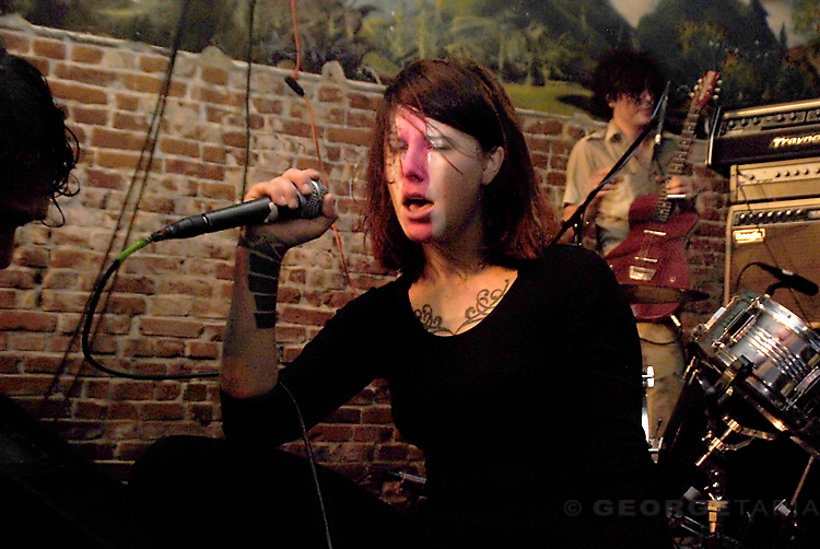 Aids Wolf - The Smell 11.16.07